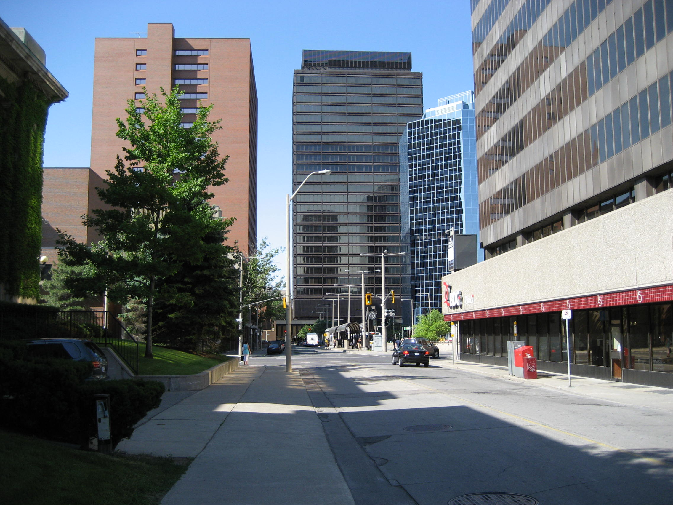 MacNab Street South, looking North, downtown Hamilton, Ontario